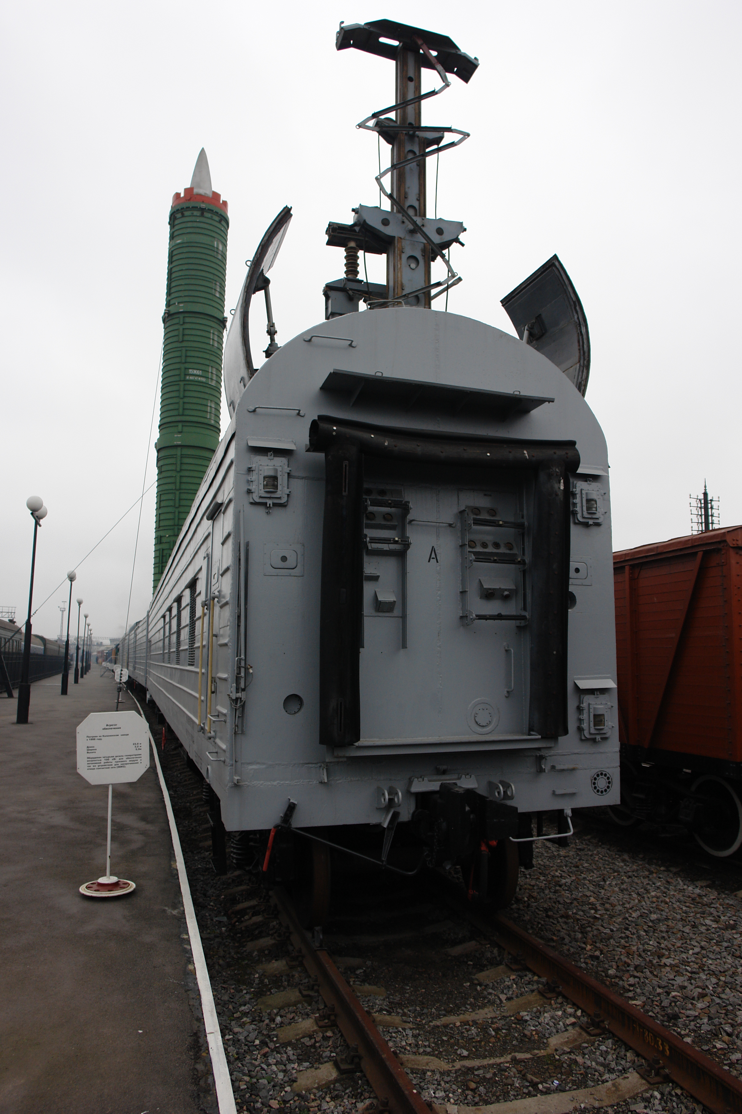 Military railway missile complex 15P961 "Molodets" with intercontinental missile 15ZH61 (RT-23 UTTH, SS-24 SCALPEL) Launching car Built by the Kalinin works in 1986 Length23,6 mWidth3,2 mHeight5,0 mWeight200 t The design is based on the 8-axles freight car (loac 135 t). The roof is opened by the hydraulic gear. Thi missile carries ten nuclear warheads each with a yielc of 0.A3 Mt. Warheads are equipped with an arrangemeni for overcoming of antiballistic missile system Power supply car Built by the Kalinin works in 1986 Length23,6 mWidth3,2mHeight5,0 m Contains four diesel generators each with a power of 100 kW for independent operation of launching unit. Provided with an arrangement able to short-circuit and push aside the overhead contact wire.